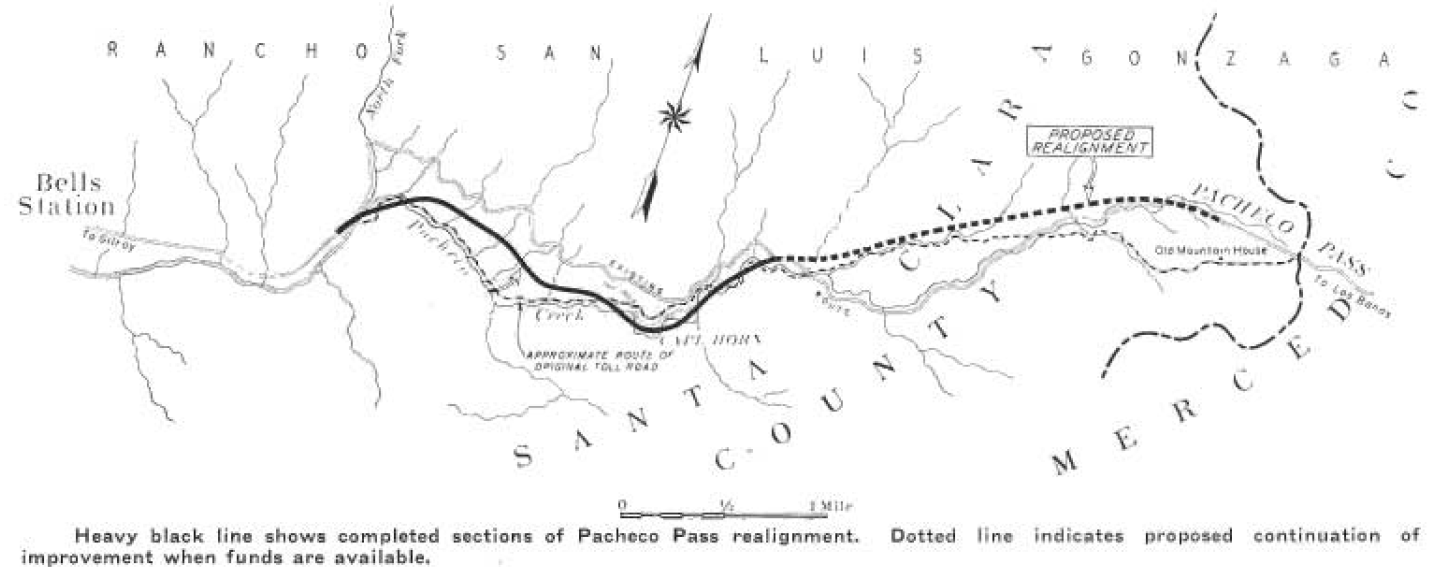 Map of 1939 realignment of California State Route 152.